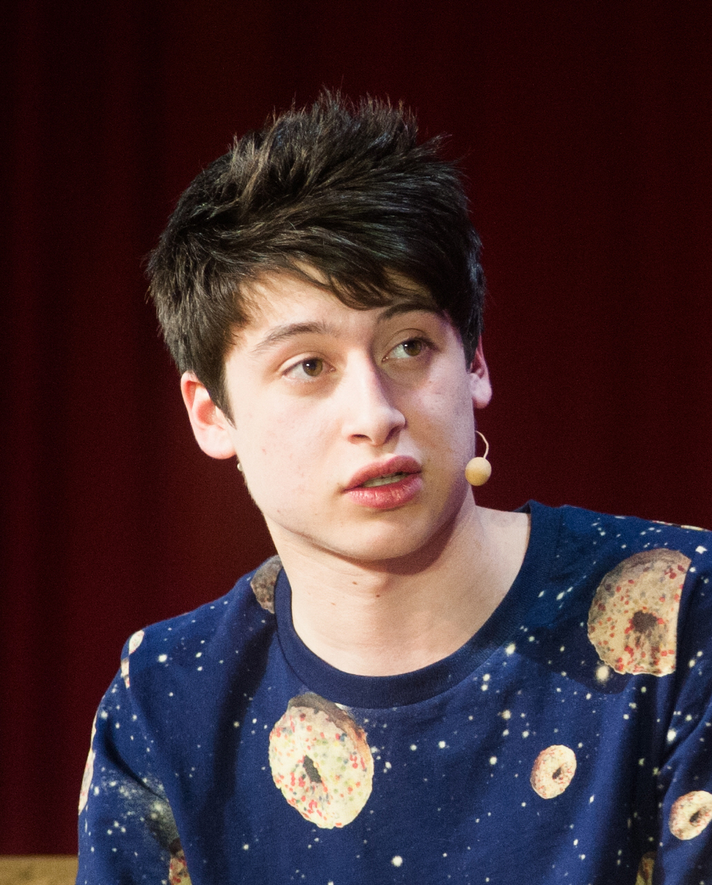 Photo by @Kmeron for LeWeb12 Conference @ Westminster Central Hall -London